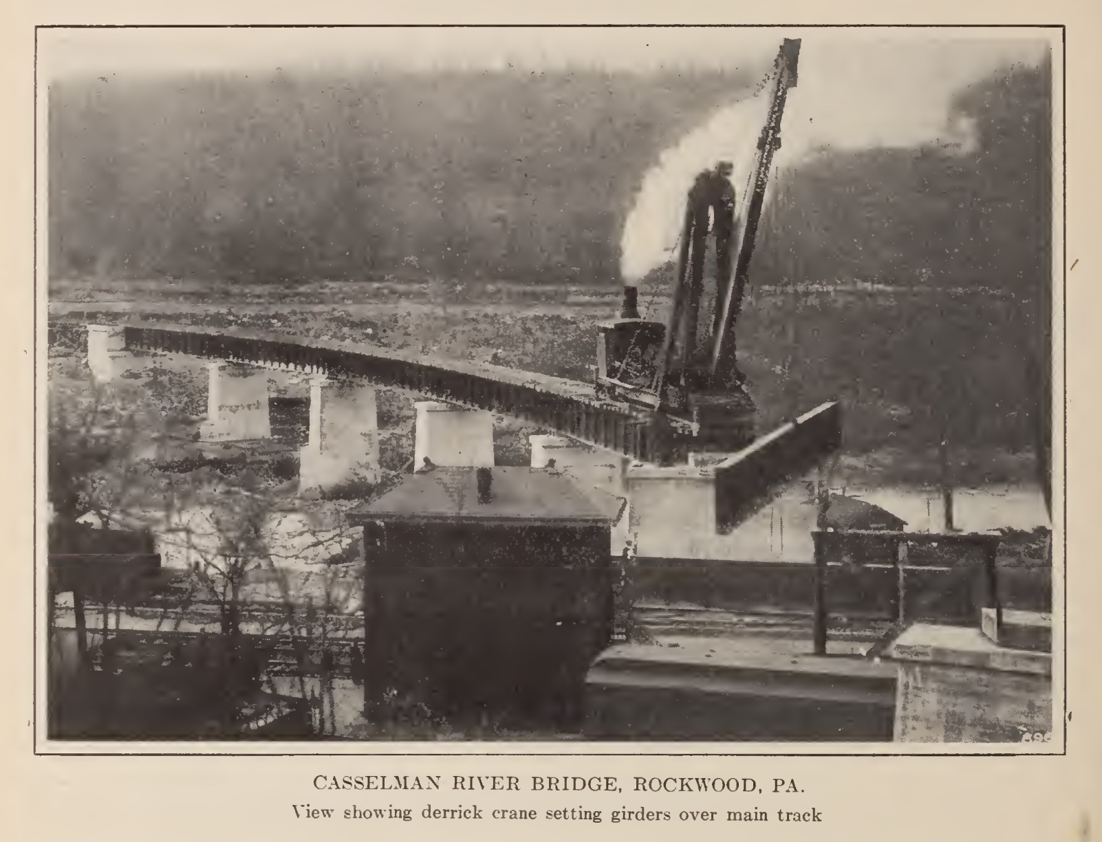 Photograph of Construction of Casselman River Bridge in Rockwood, Pennsylvania, that appeared in Baltimore & Ohio Employes Magazine, June 1914, Vol. 02 No. 09, Page 06